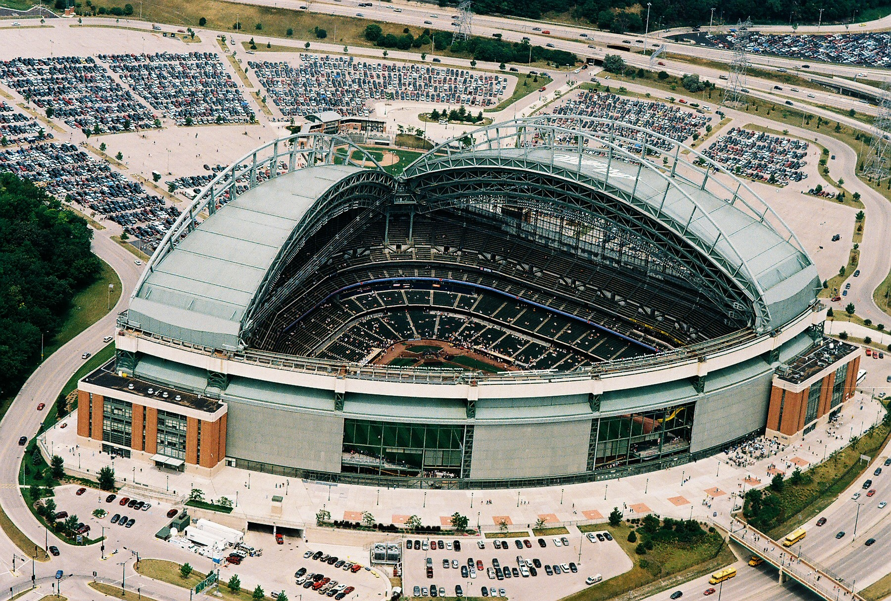 Miller Park, Milwaukee, Wisconsin